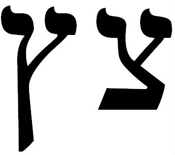 Sofit cade and cade hebrew letters